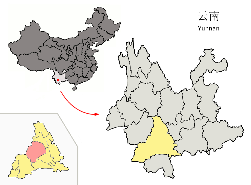 Location of Jinggu County (pink) and Pu'er Prefecture (yellow) within Yunnan province of China Map drawn in september 2007 using various sources, mainly : Yunnan province administrative regions GIS data: 1:1M, County level, 1990 Yunnan Counties map from